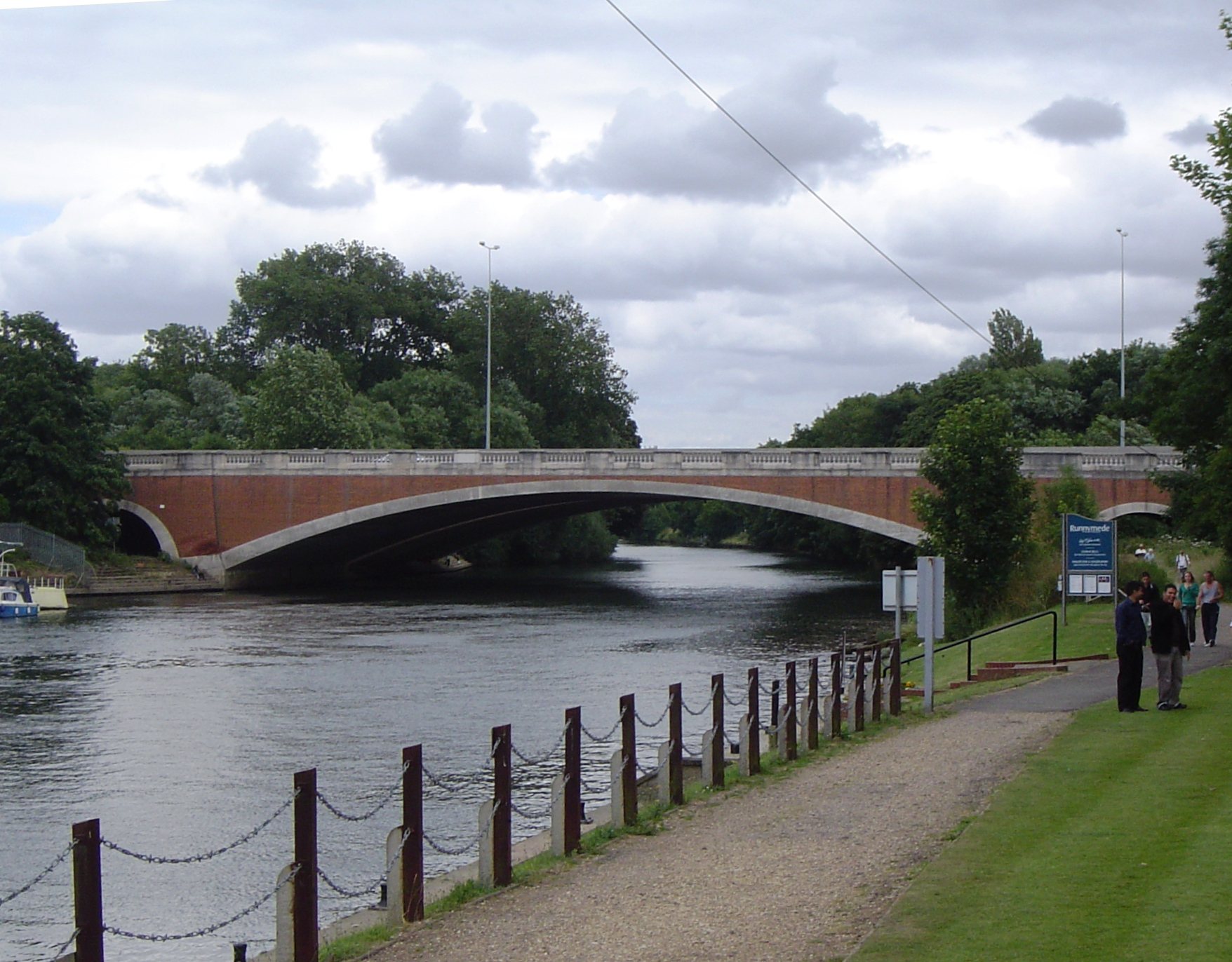 M25 Runnymede Bridge River Thames near Egham